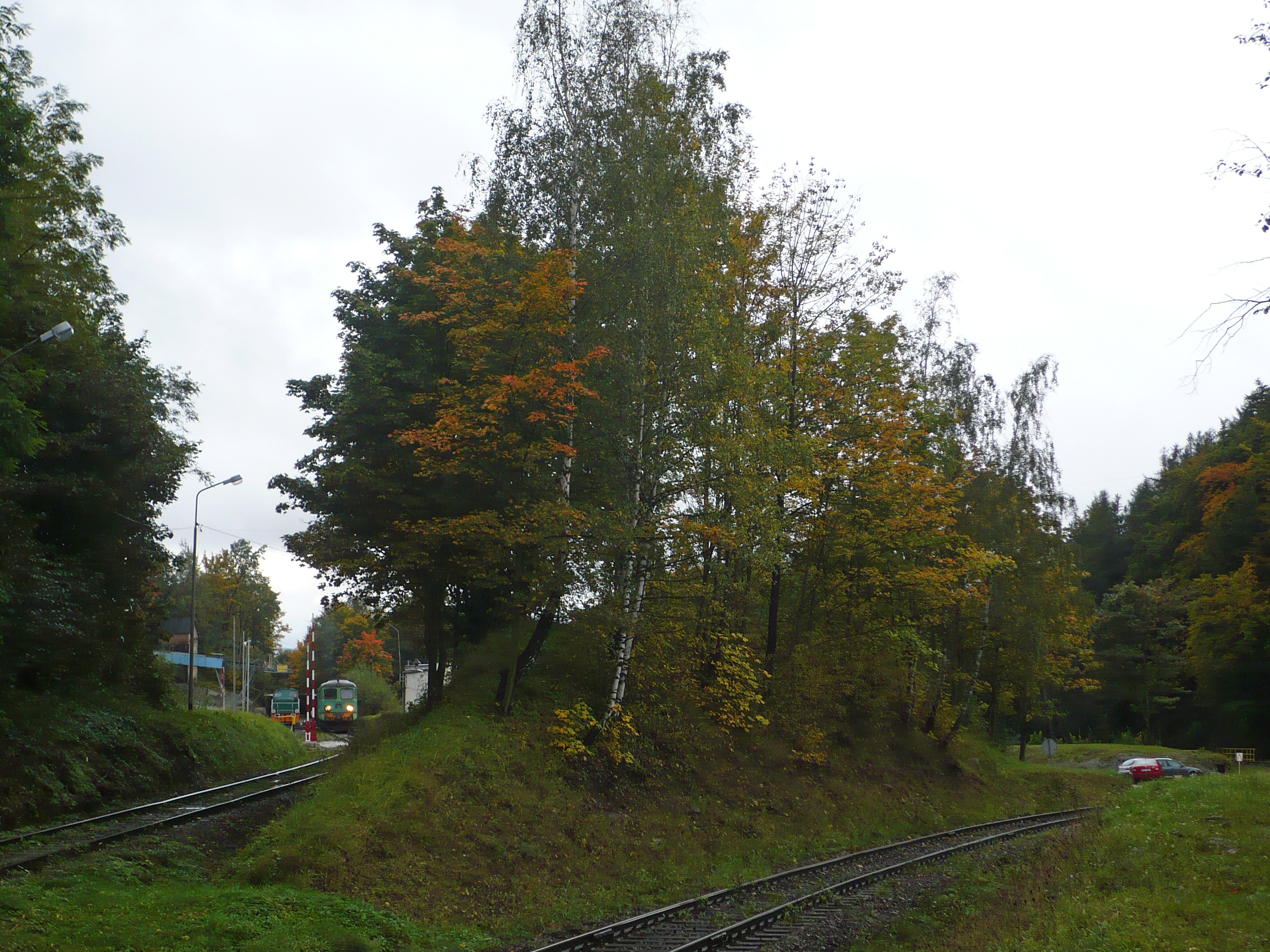 Industrial siding kopalnia gabra Słupiec, ST43-328 with the headlights on.